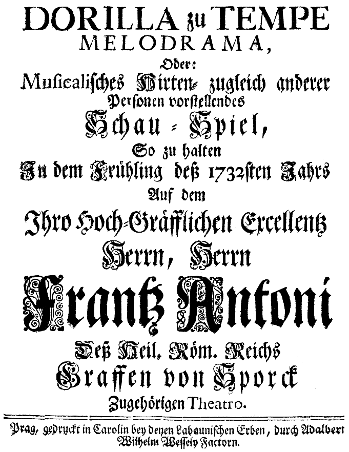 Antonio Vivaldi - Dorilla in Tempe - german title page of the libretto, Prague 1732